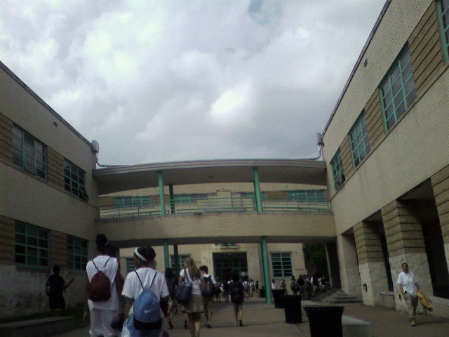 Lamar High School (Houston, Texas) courtyard overlooking the crossing bridge from the West(W) Building to the East(E) Building and the North Building in the background. The boys and girls are wearing school uniforms.